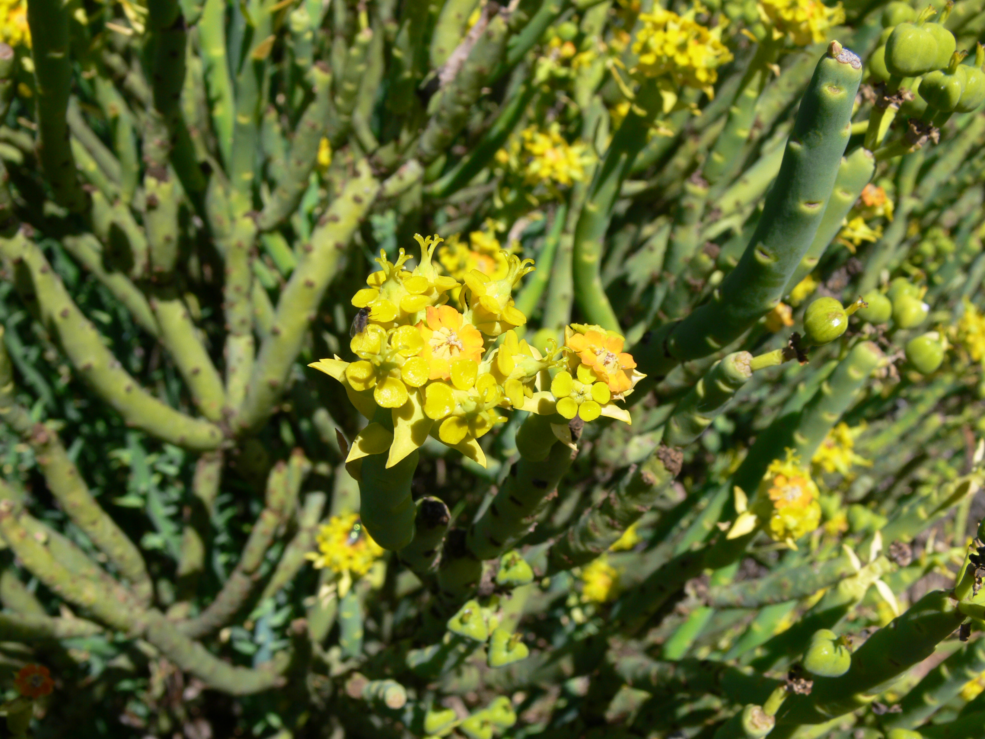 Poison Milk Bush , also known as Pencil Milkbush, Euphorbia mauritanica L., near Nieuwoudtville, Hantam Local Municipality, Western Cape, South Africa